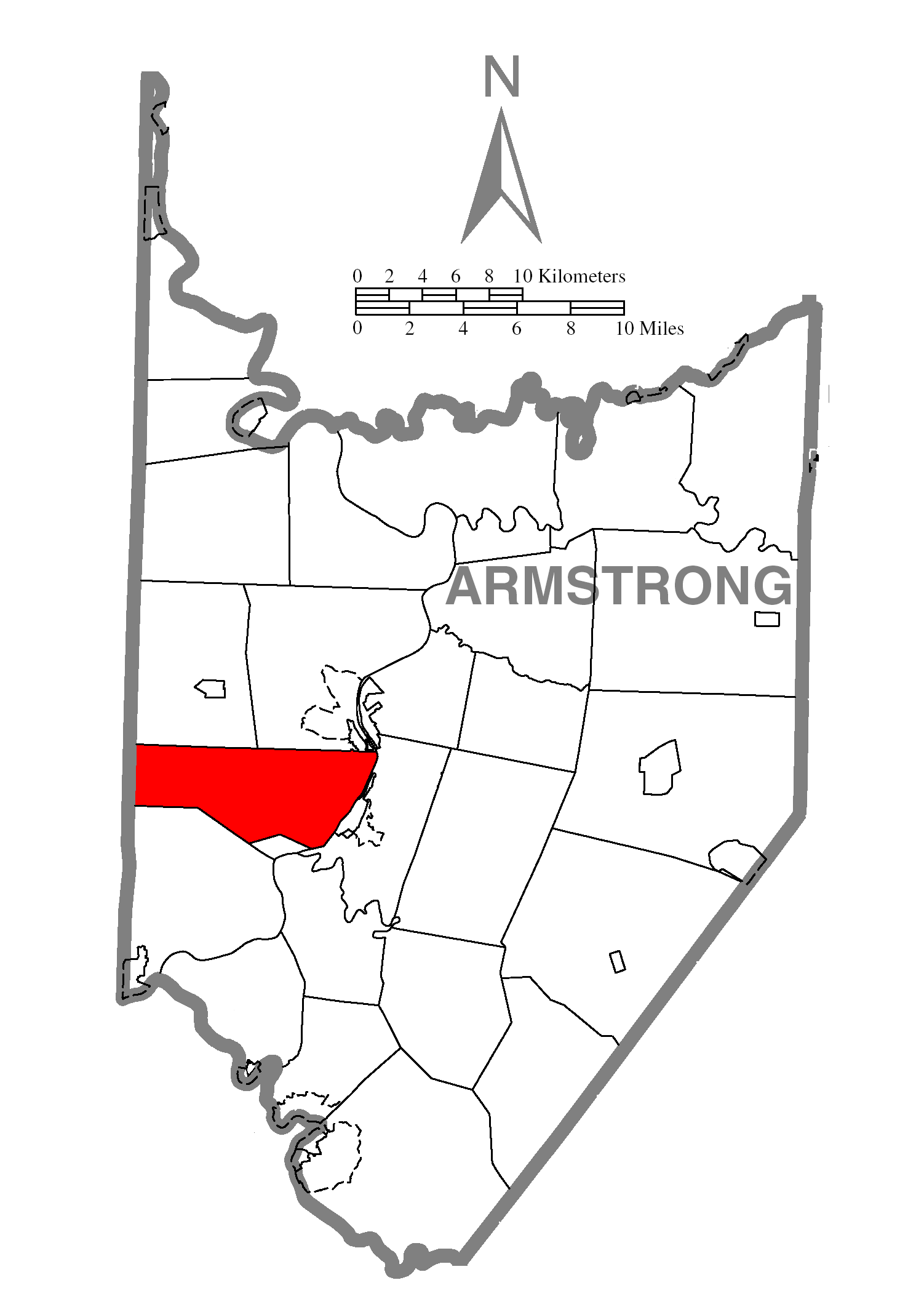 A map of Armstrong County showing North Buffalo Township, Pennsylvania (alternate) highlighted on the map.